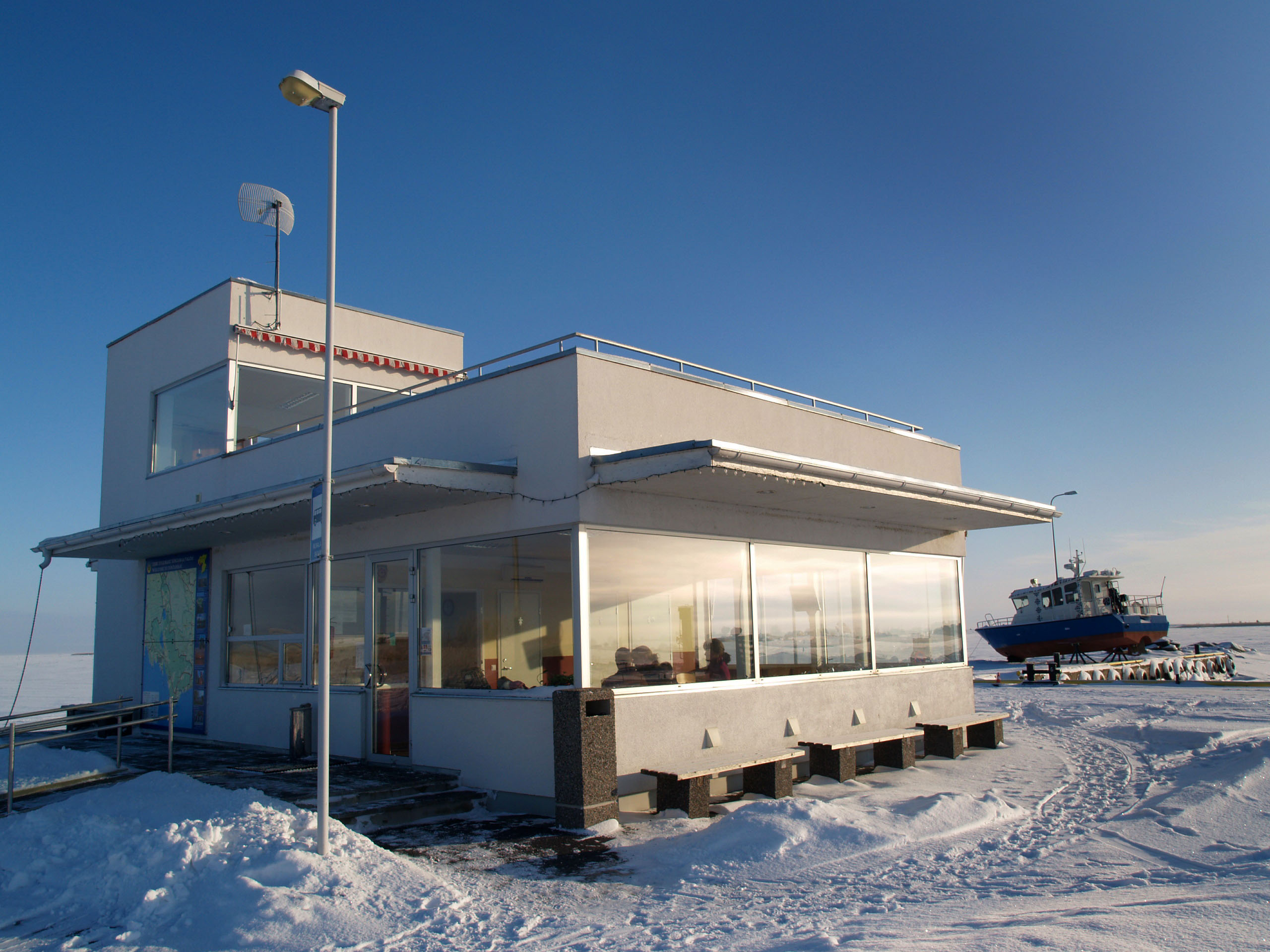 harbour Munalaid